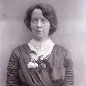 Lillian Williamson Col Linley Blathwayt's slide number 79/1911. Wearing a fresh rose. Taken at Eagle House in Batheaston